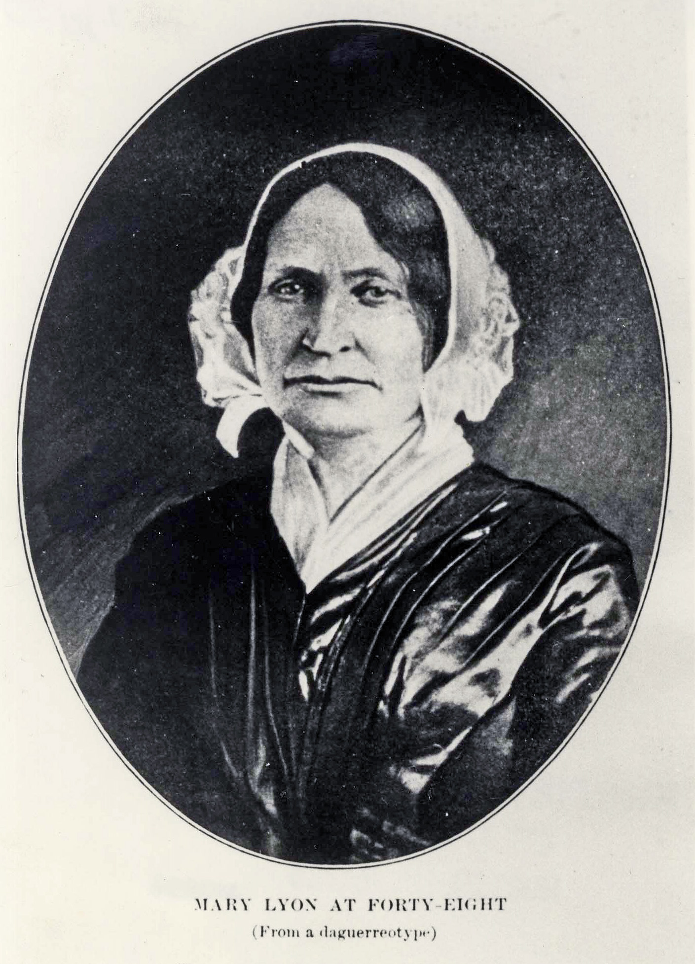 Mary Lyon 1797-1849, Age 48. Engraving from a Daguerrotype.